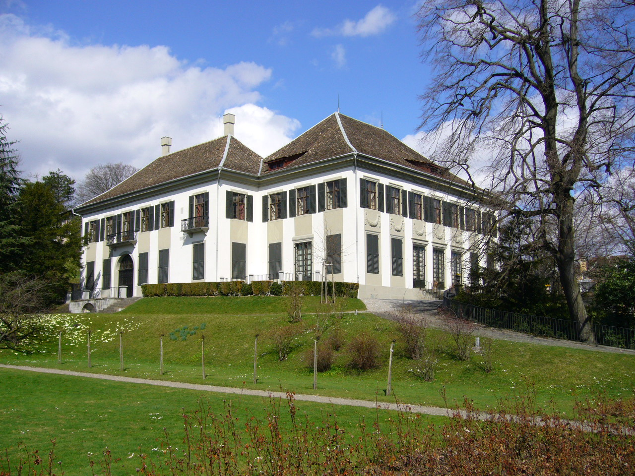 Muraltengut, old villa in Wollishofen, city of Zurich, Switzerland. Today public park.